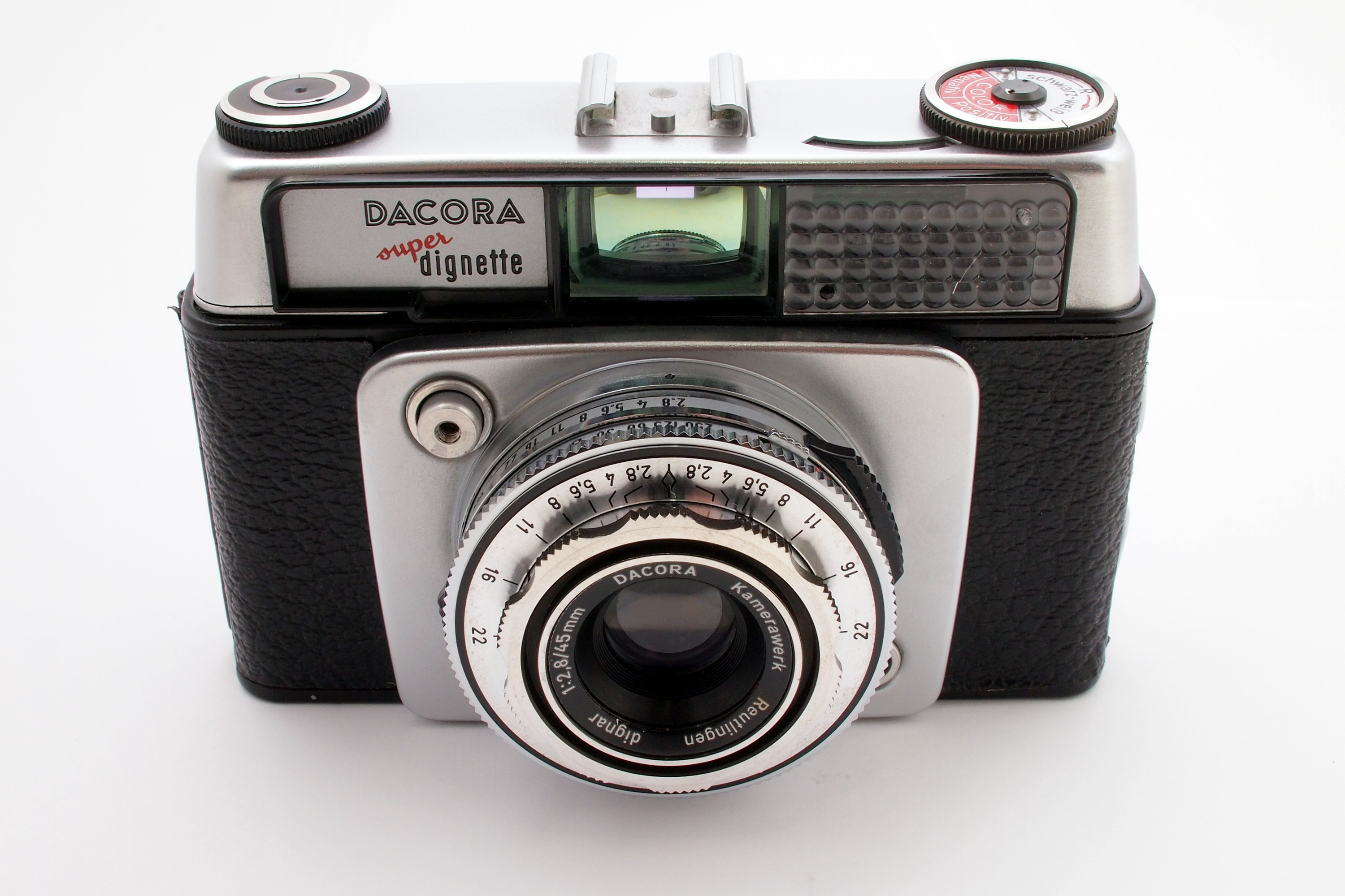 Dacora super dignette, Vario-LK, dignar 45mm 1:2,8